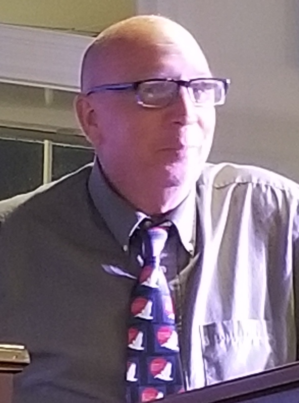 Photo of Brian Carroll and Joe Schriner at the 2019 ASP Midwestern Regional Meeting at the Carlisle Inn of Walnut Creek